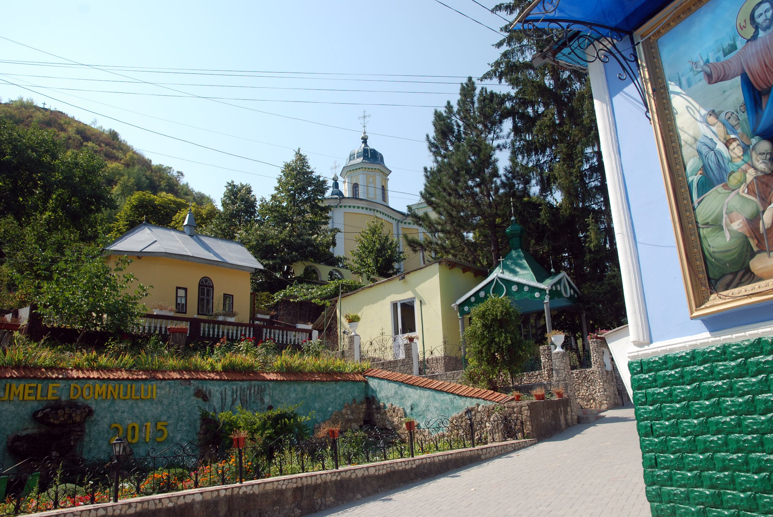 Saharna Monastery from main entrance